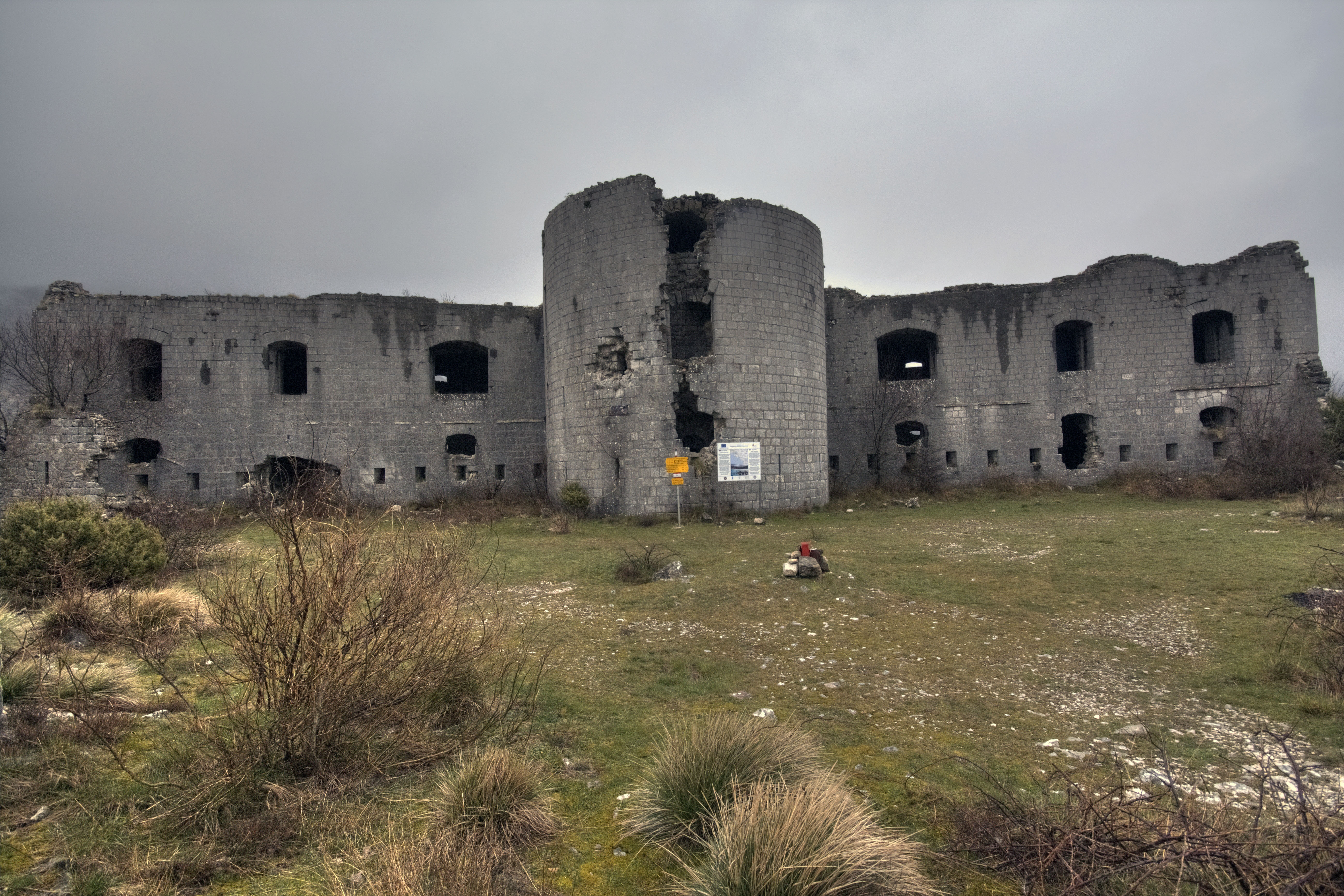 Central section of Fort Kosmač